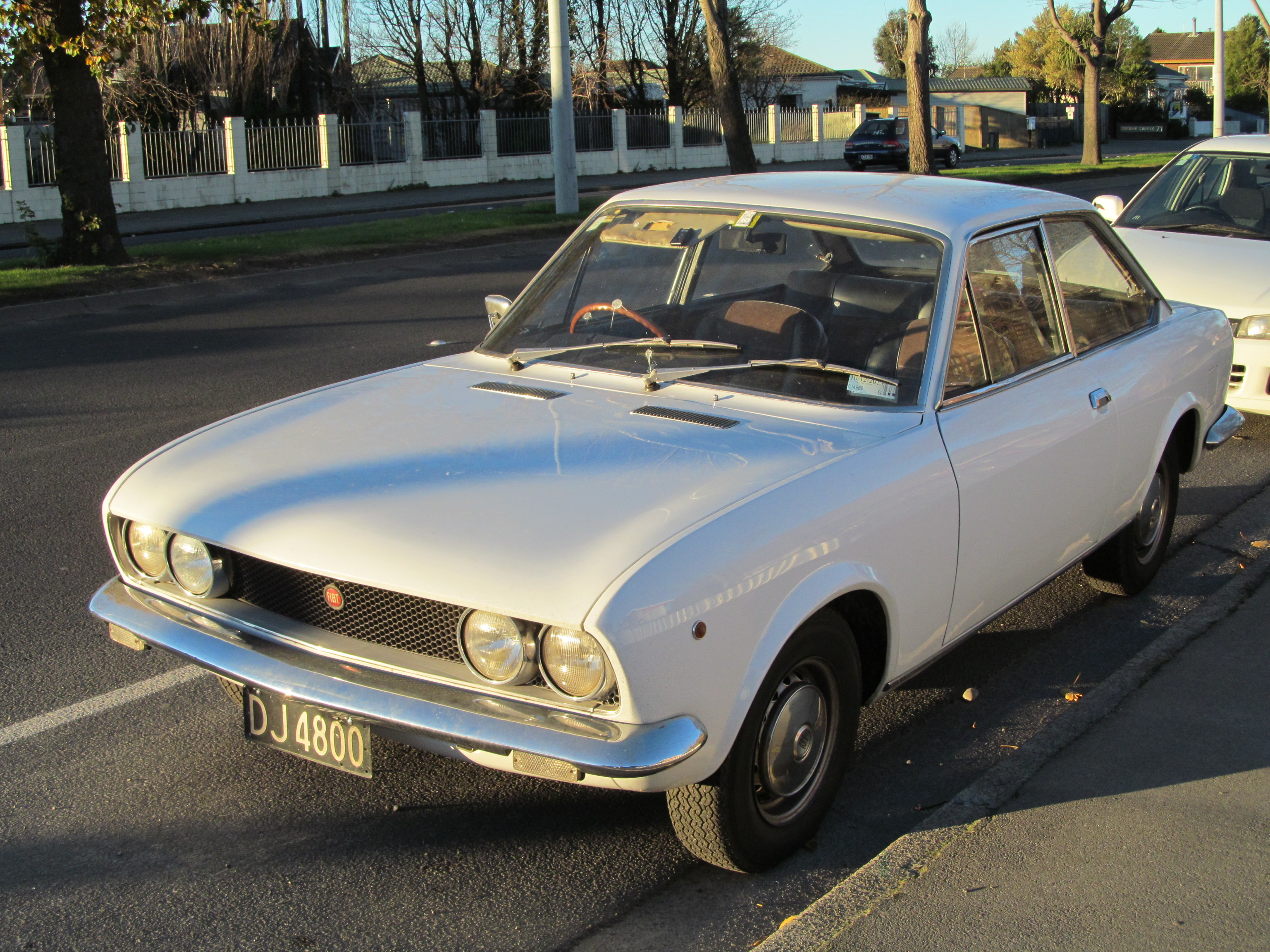 DJ4800 I couldn't believe how tidy this lower spec 124 was - it had no visible rust anywhere as far as I could see, and retained most, if not all, of its original features.